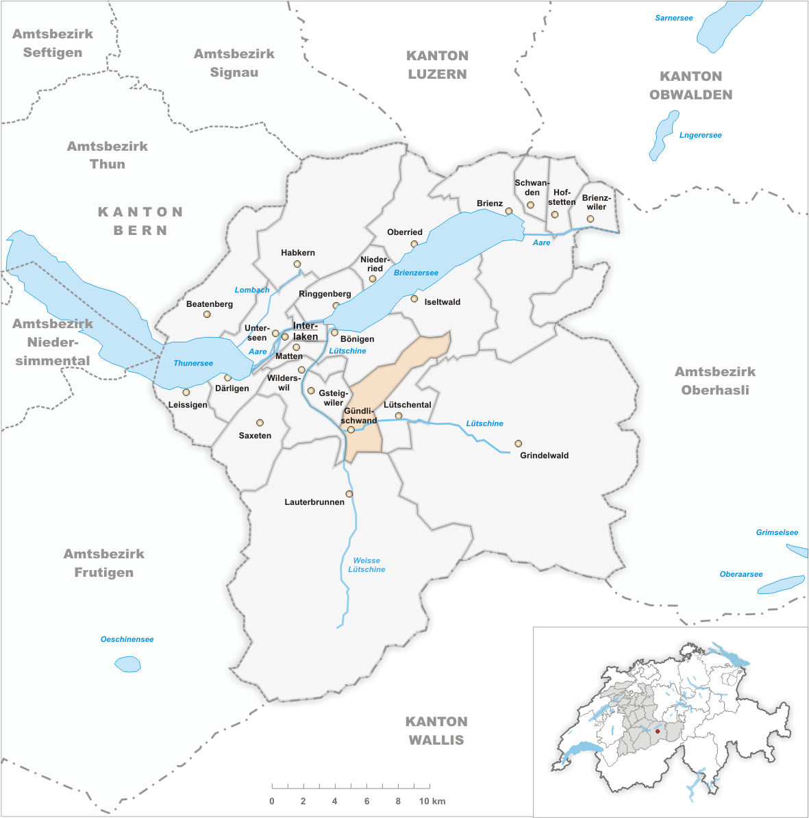 Municipality Gündlischwand